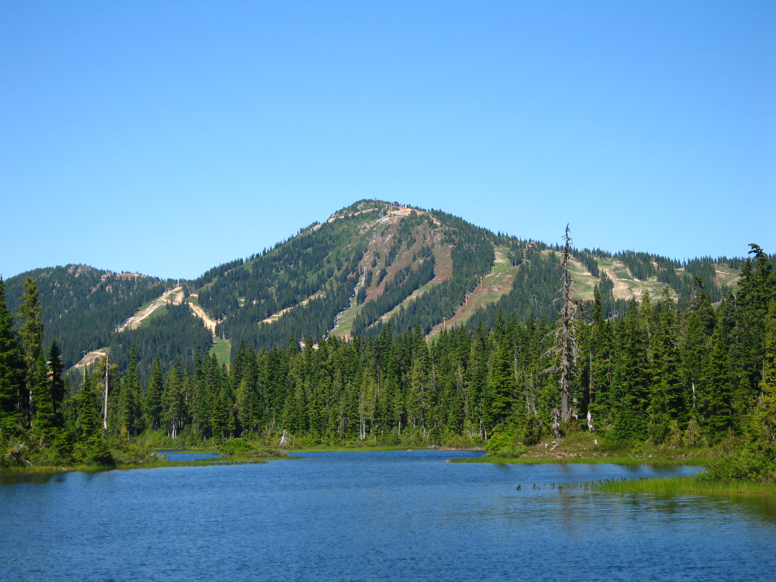 Mount Washington from Forbidden Plateau in the Summer